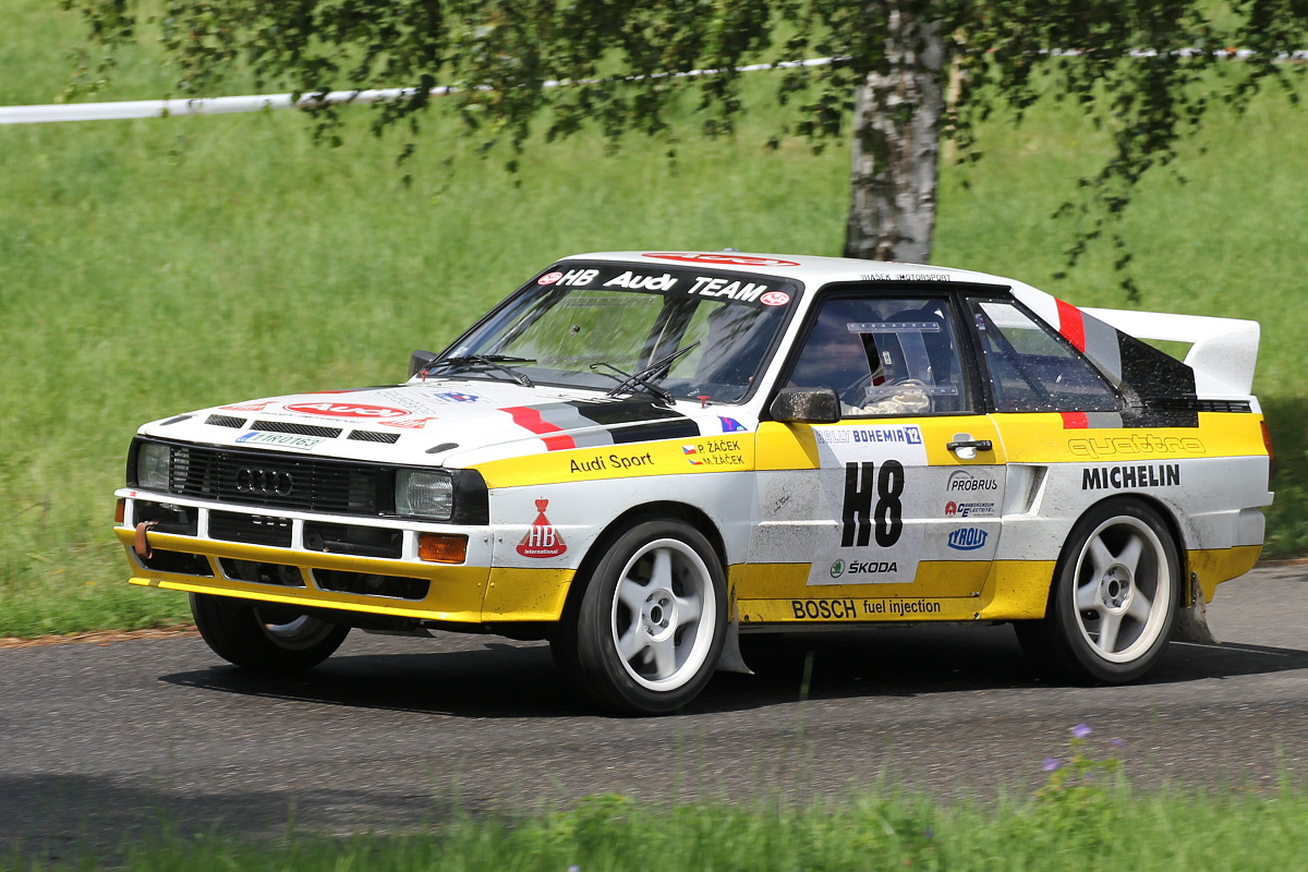 H8 Petr Žáček - Matěj Žáček (CZE) - Audi Sport Quattro / group B / 1984, replica 2009